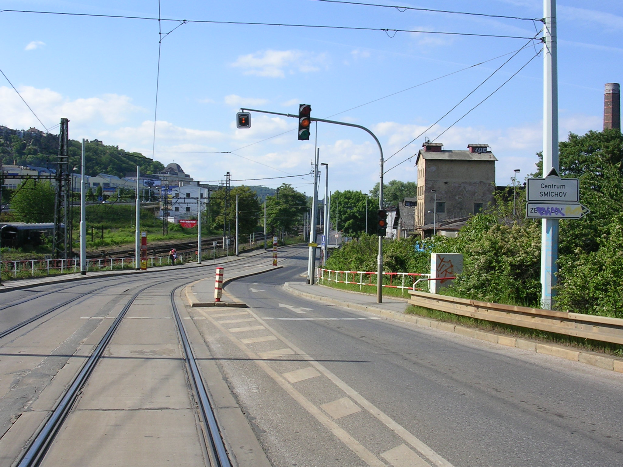 Hlubočepy and Smíchov, Prague, the Czech Republic. A tram stop.